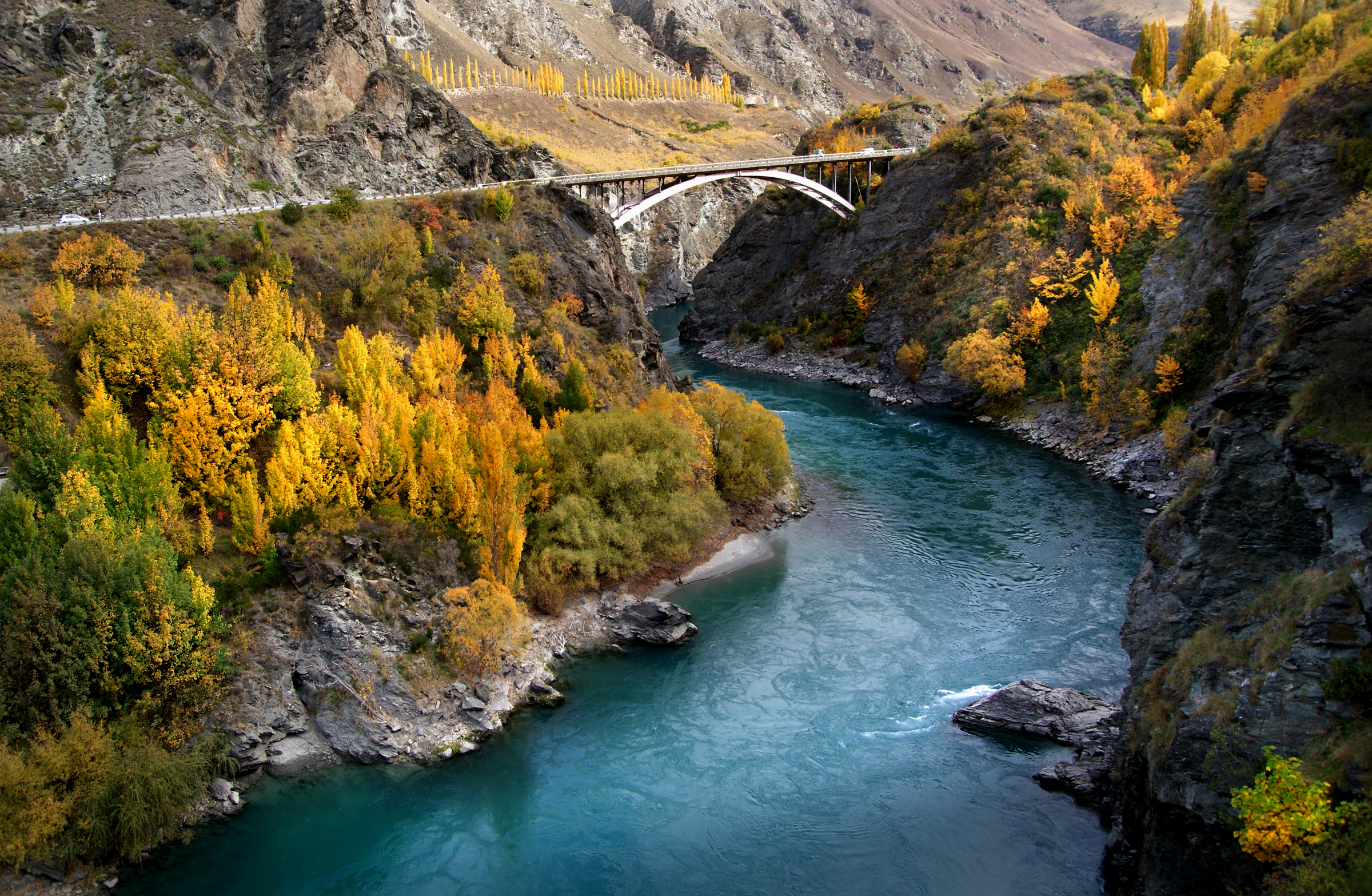 The Kawarau Gorge with its towering cliffs and rugged hillsides provides some of the most spectacular scenery in Central Otago. The Kawarau River drains Lake Wakatipu and on its way to join Lake Dunstan tumbles and roars through a series of rapids and swirling eddies.